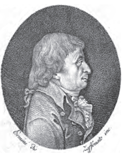 Lithography of Lorenzo Pignotti